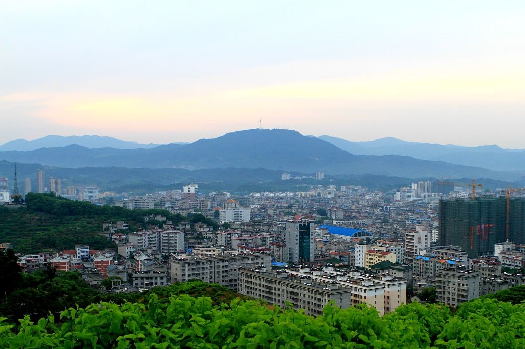 Downtown of Loutian